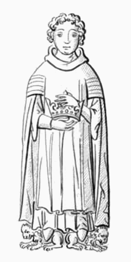 Charles, 6th Dauphin of France (1392-1401), detail from his tomb effigy.